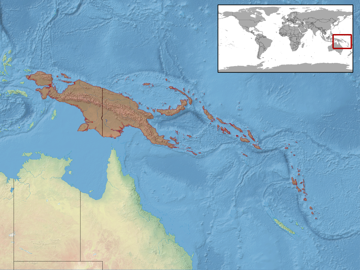 geographic distributionm of Nactus multicarinatus (Native: Papua New Guinea (North Solomons); Solomon Islands; Vanuatu)